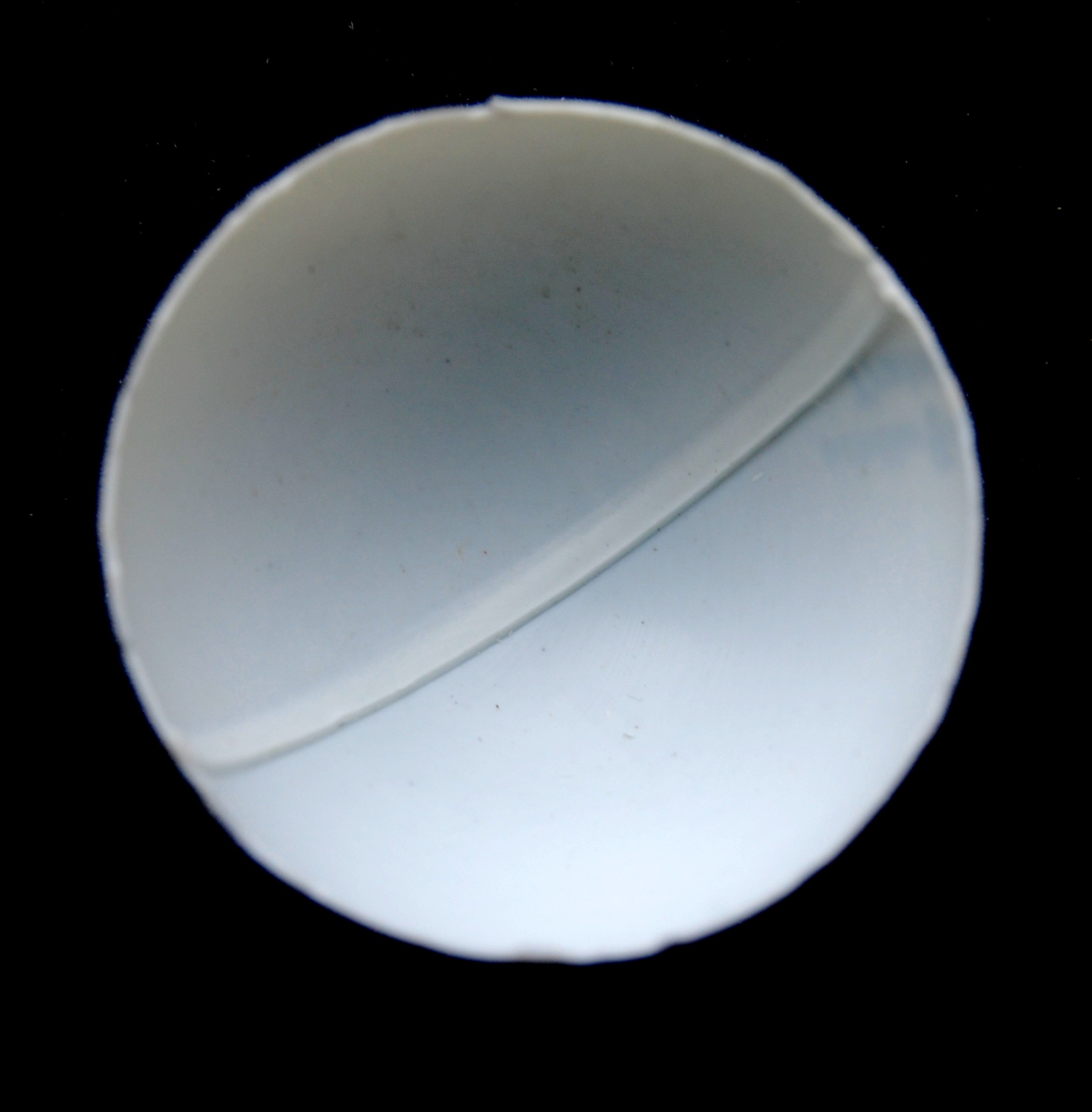 Table Tennis Ball - Inside View